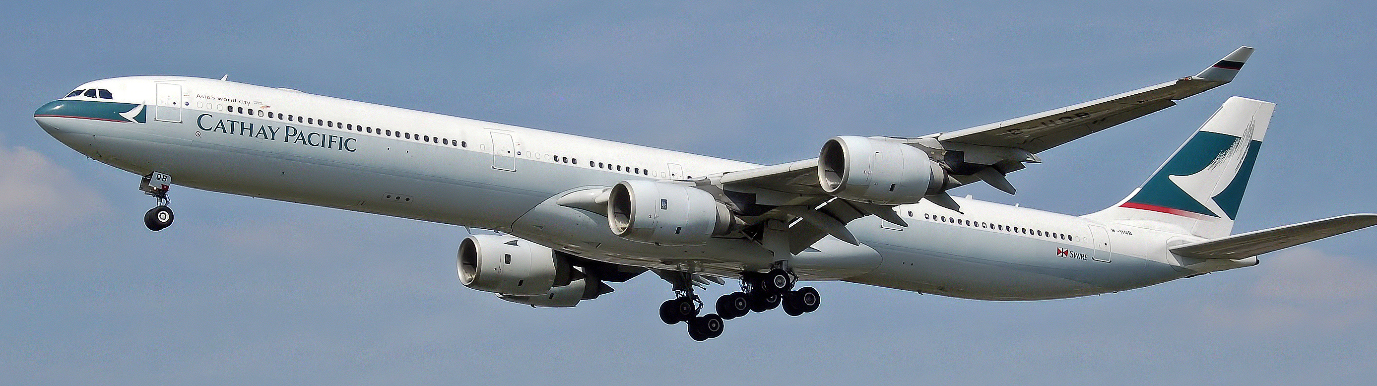 Cathay Pacific Airbus A340-600 (B-HQB) landing at London Heathrow Airport.